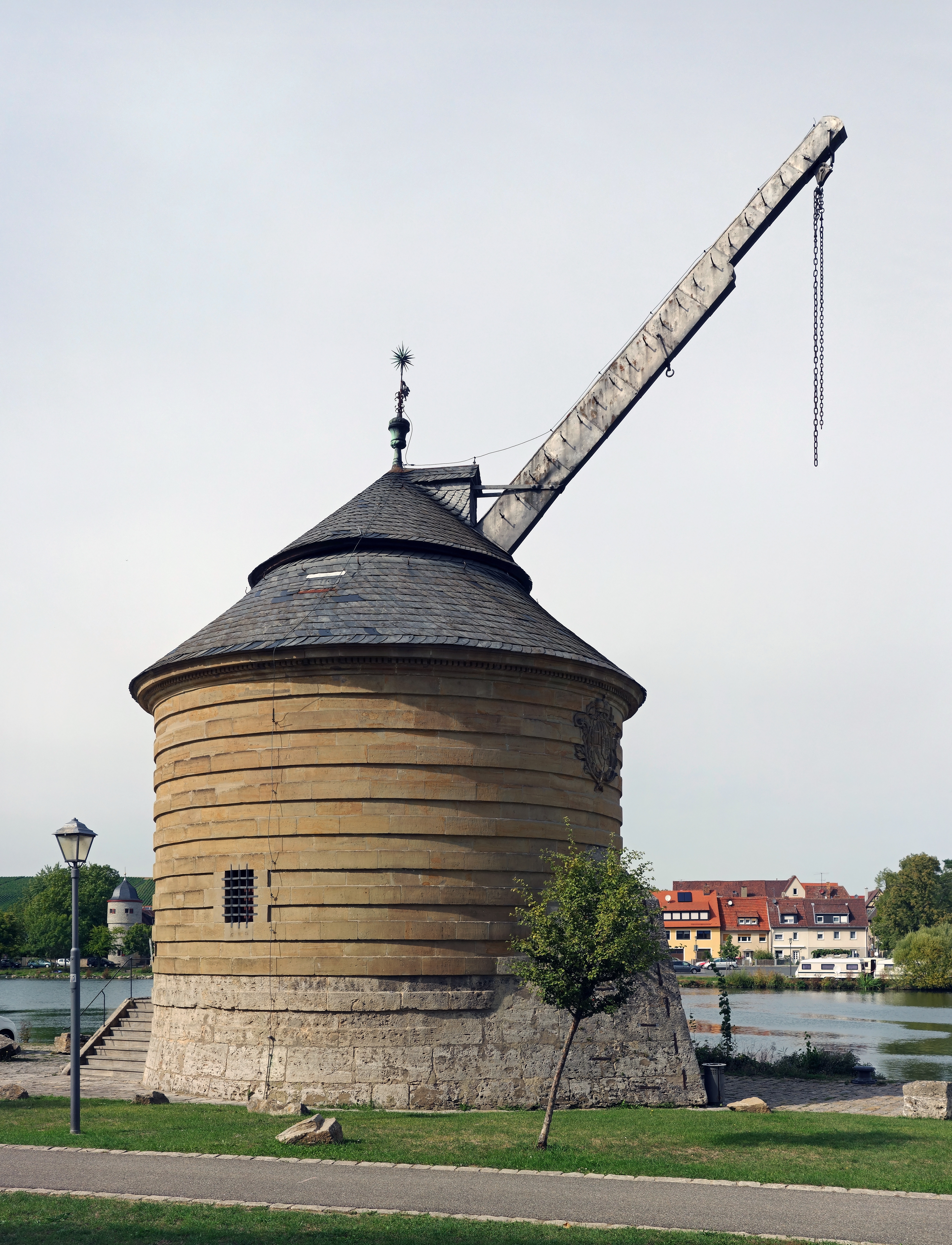 A treadwheel crane at the riverside of Marktbreit, preserved as cultural heritage.